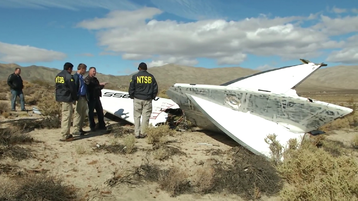 NTSB Go-Team inspects a tail section of the crashed VSS Enterprise, a SpaceShipTwo spaceplane. This image is a frame of the B-roll video recorded by NTSB and published on November 1, 2014. The image was cropped to the 16:9 ratio.